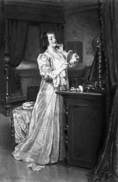 ROXANA, frontispiece, p. 244 Project Gutemberg